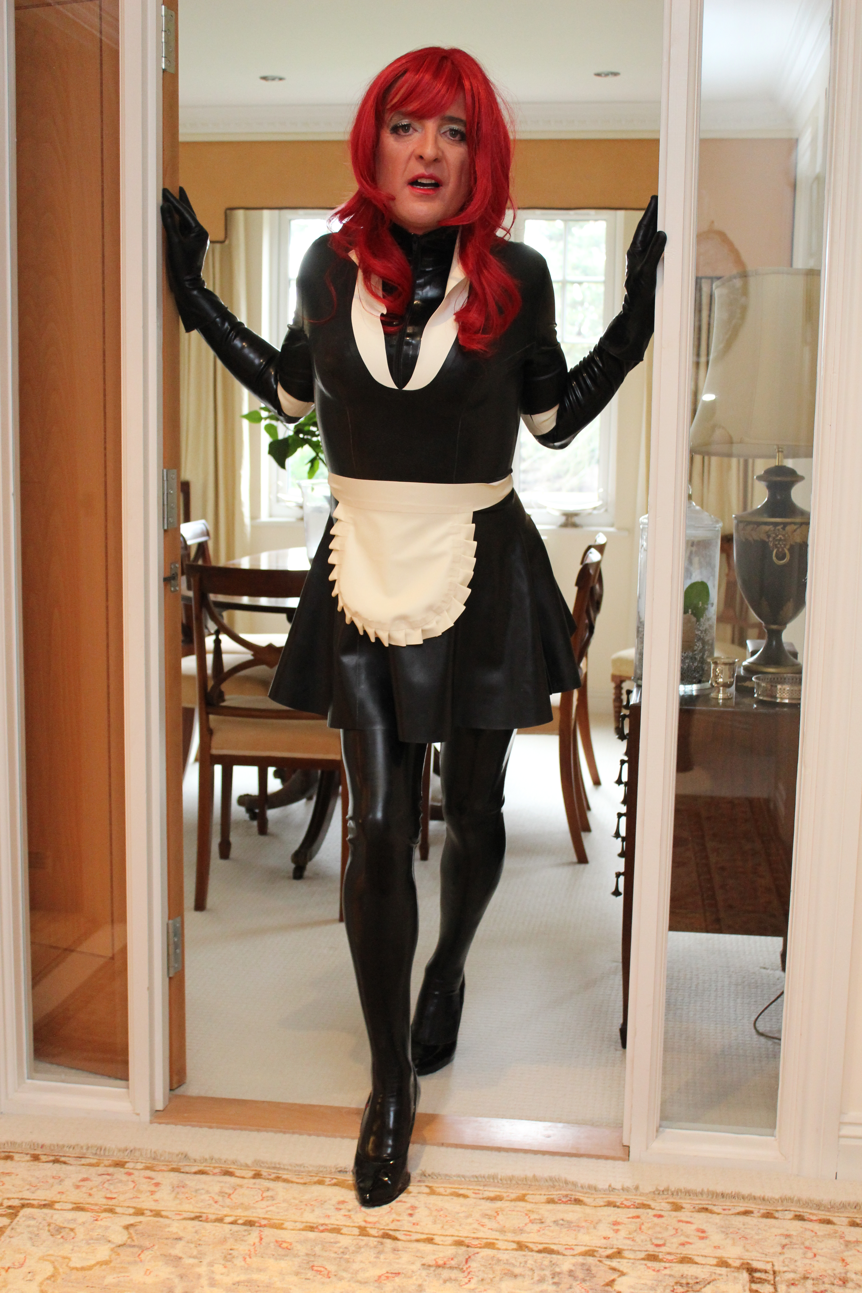 A transvestite wearing a latex maid's uniform